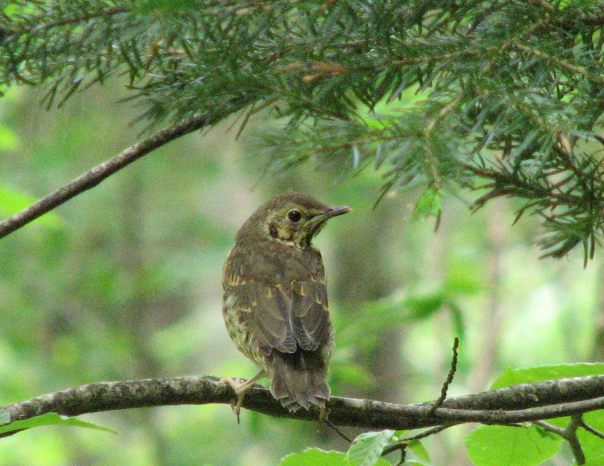 Juvenile song thrush in forest understory near Dombaih, Russia (Caucuses Mountains); 2007 July 3